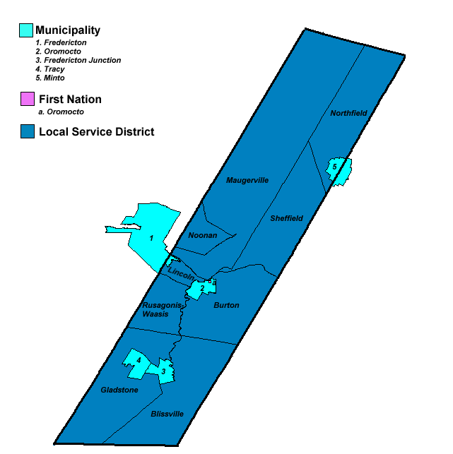 Municipal units of Sunbury County, New Brunswick. Based on files from Service New Brunswick